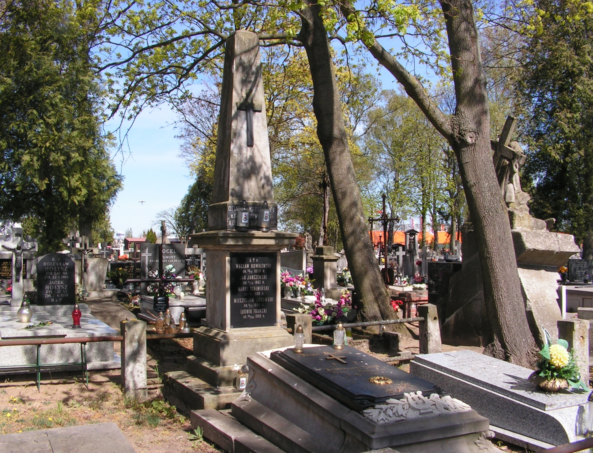 Monument for victims of catastrophe on the Vistula River in 1906 year and grave of Kazimierz Łada on the Communal Cemetery in Włocławek. On the left there is a part of grave of Wacław Antoni Kowalewski (one of the victims) with his daughter, teacher Wanda Zofia (1896-1983).